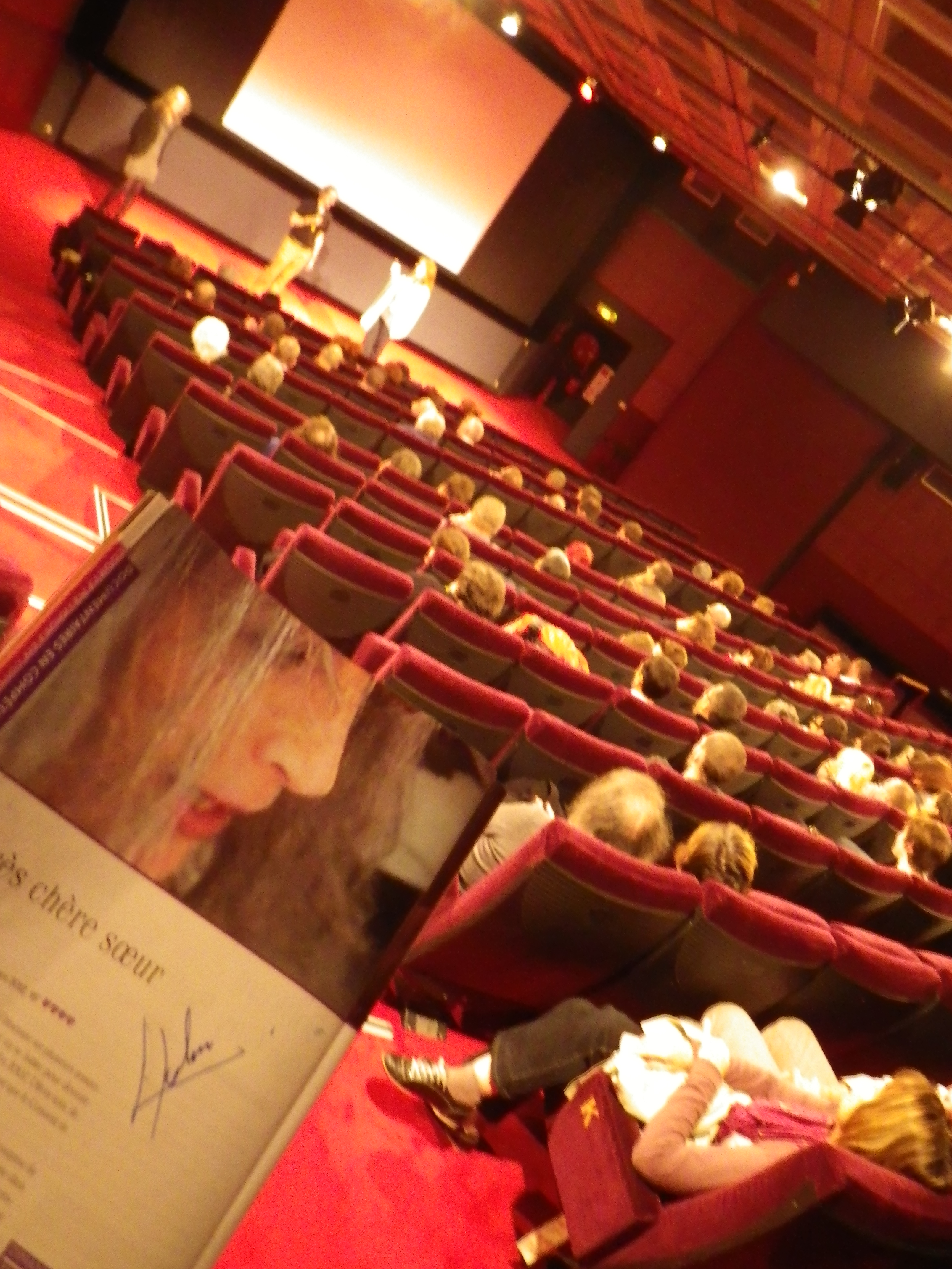 18th Chéries-Chéris Festival Film, Forum des Images, October 2012, Paris, France.